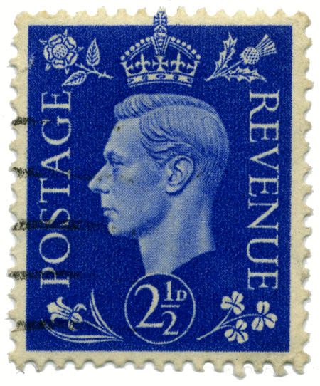 Scan of United Kingdom 2 1/2-pence stamp of 1937